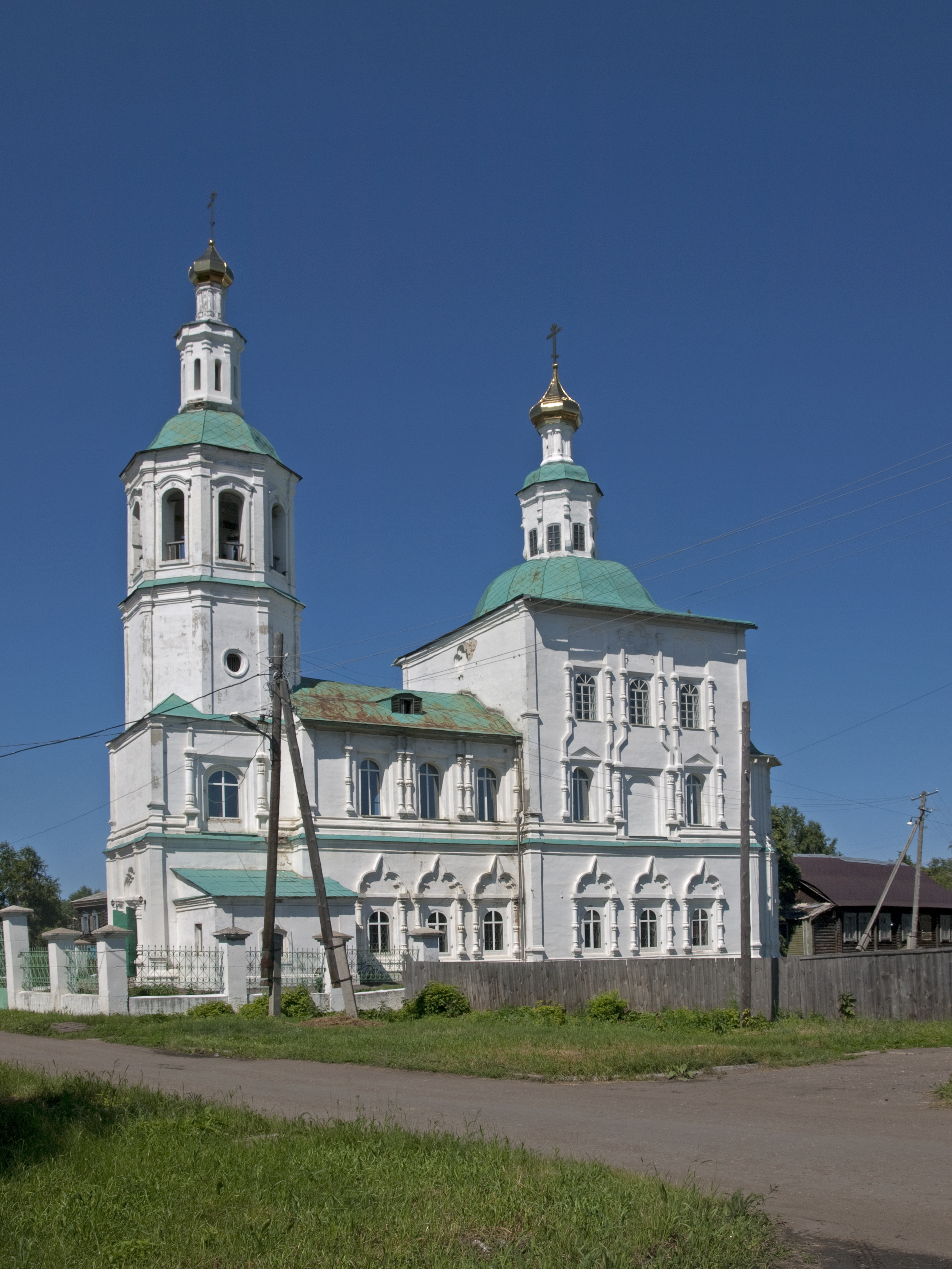 St. Saviour Church, Tara